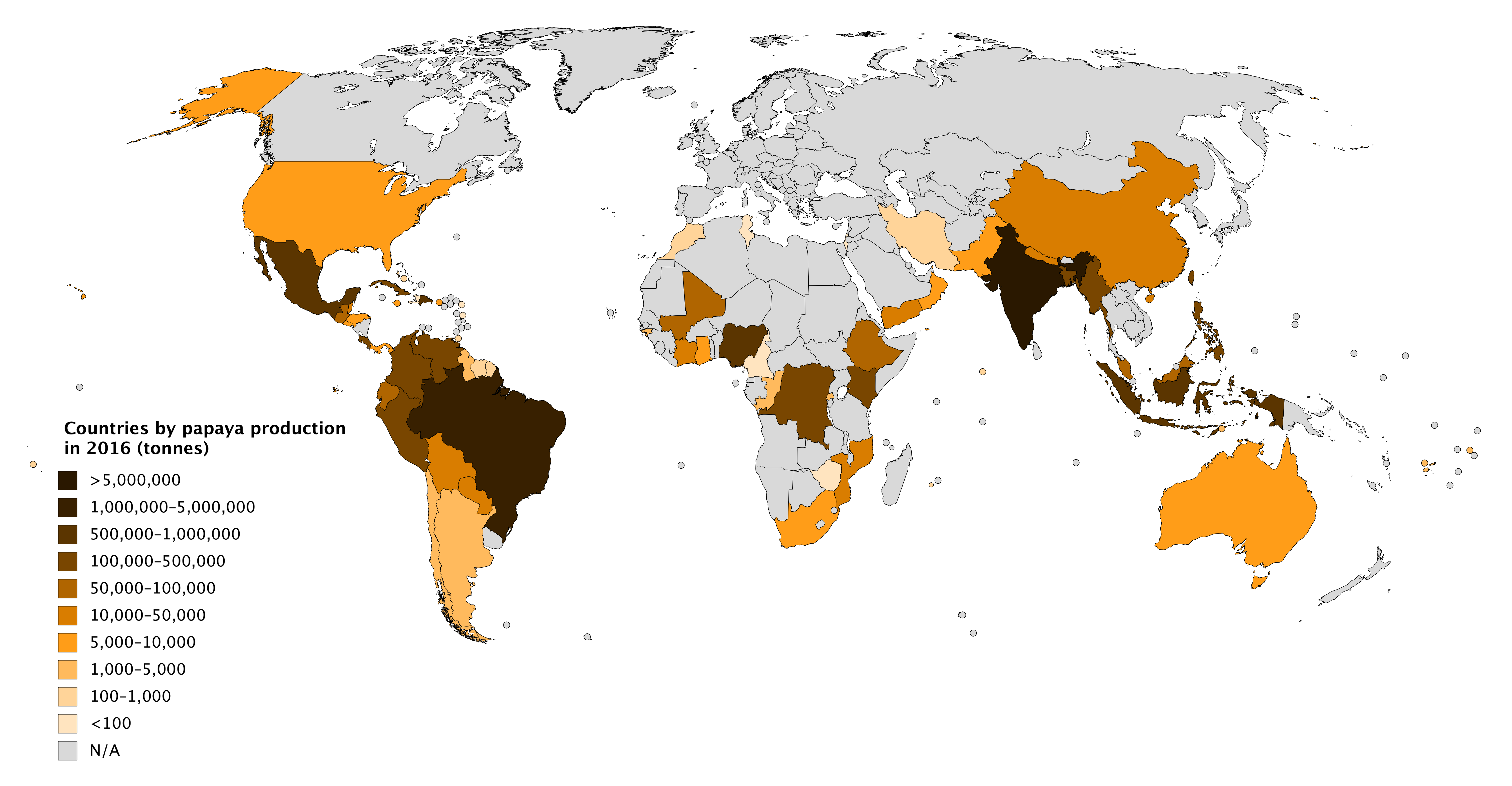 A choropleth map showing countries by papaya production in tonnes, based on 2016 data from the Food and Agriculture Organization Corporate Statistical Database (FAOSTAT).